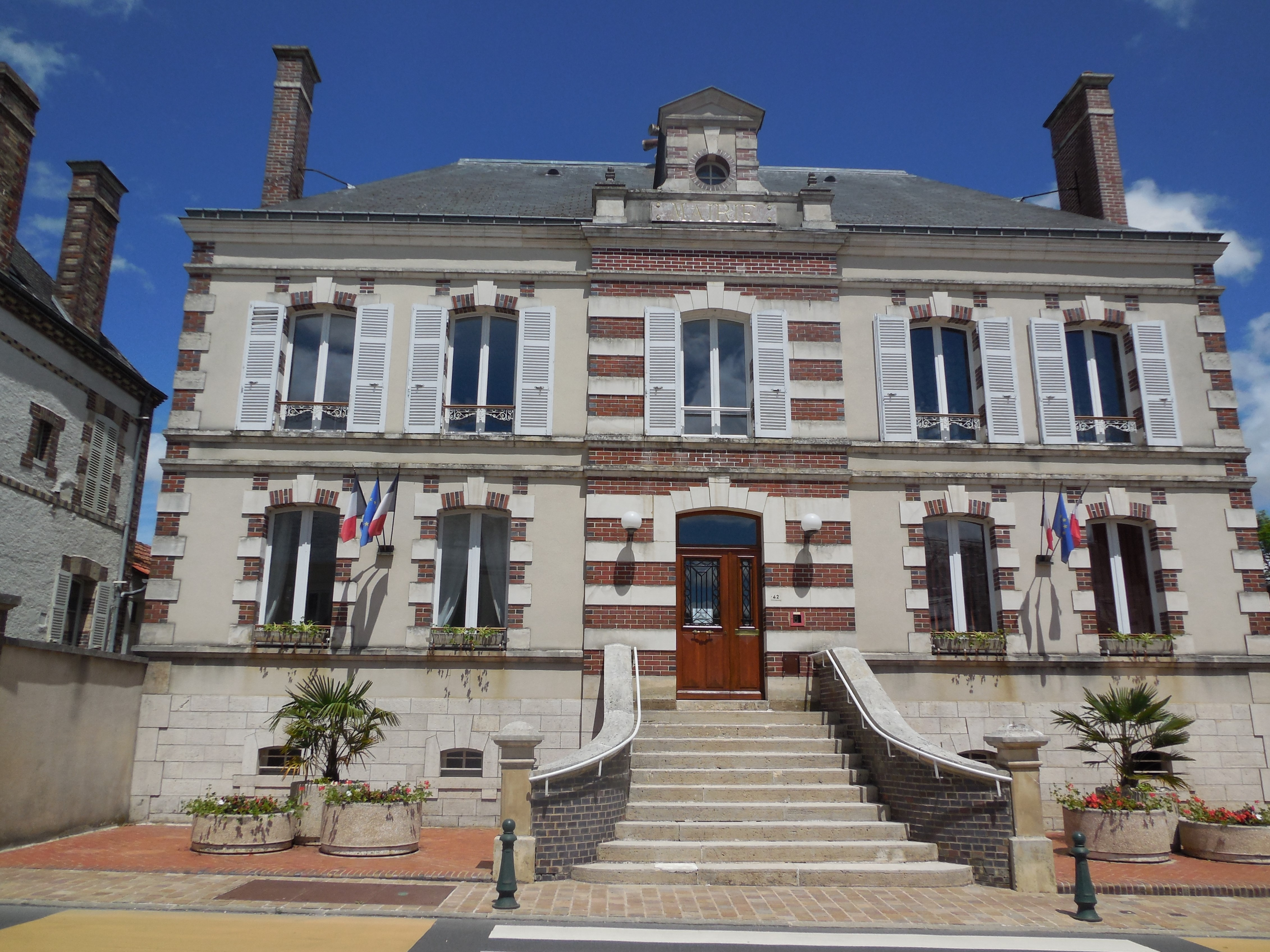 Mairie de Douchy-Montcorbon